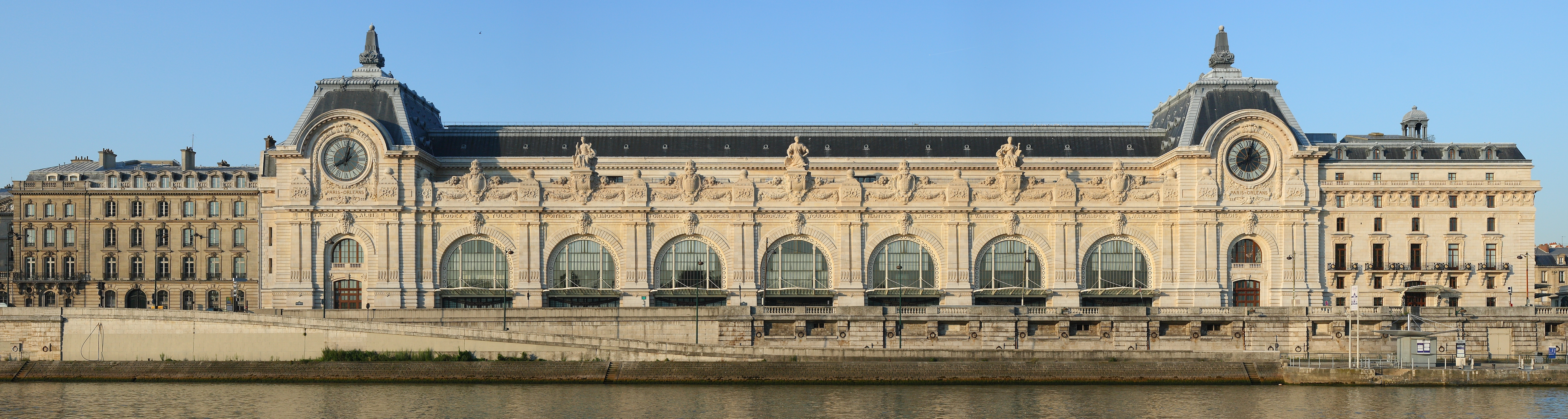 North side of Orsay Museum building. This panorama is made of three pictures stitched with Hugin.